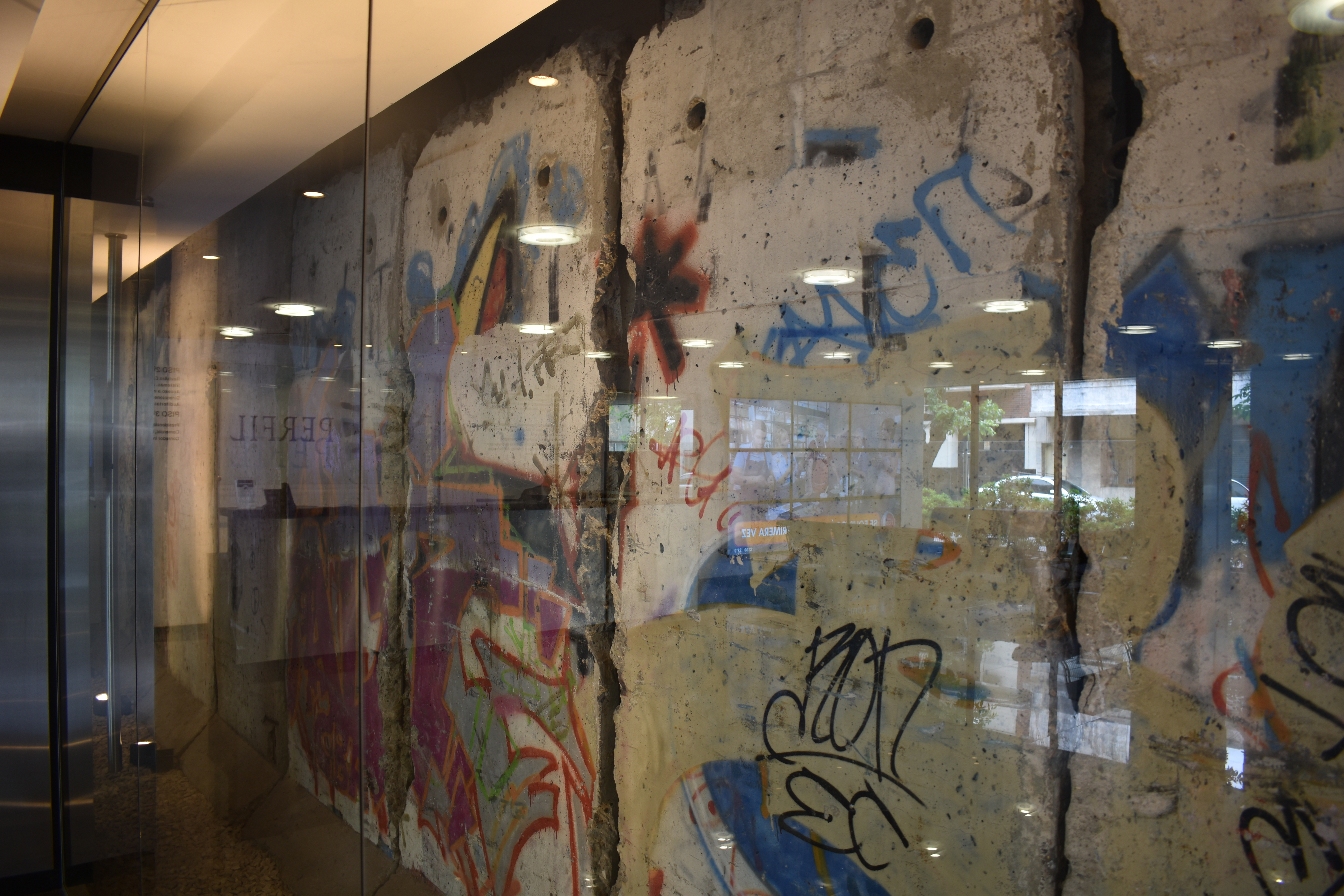 Berlin Wall segment at the headquarters of Perfil newspaper. It's the longest segment of the wall conserved outside of Germany.